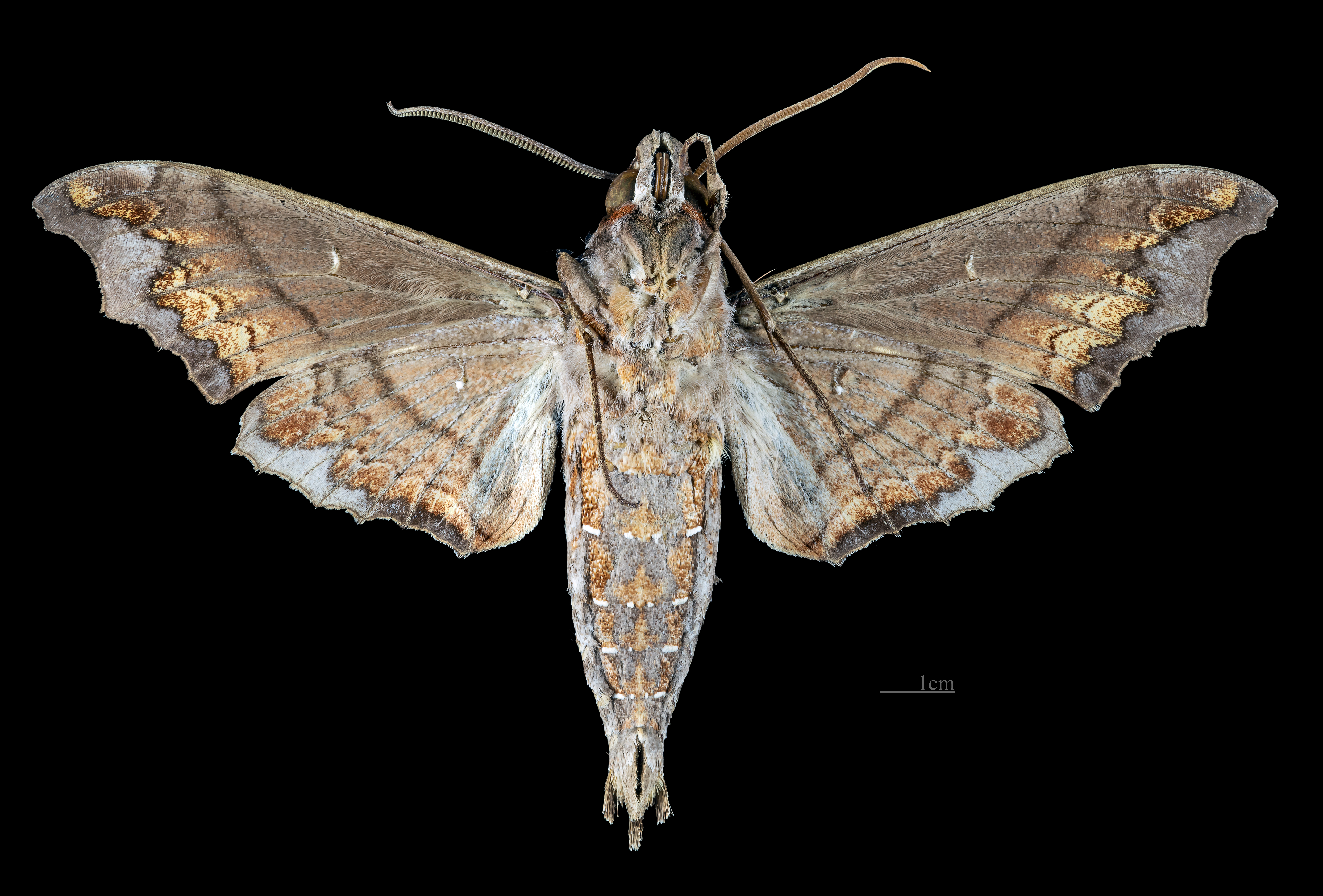 Hemeroplanes longistriga - △ Ventral side Collection of the Mathematician Laurent Schwartz